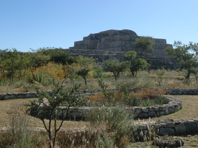 Pyramid of Cañada de la virgen,San Miguel de Allende,Mexico.